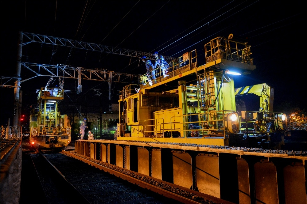 Railway electrification works being undertaken on the Roca Line in Greater Buenos Aires.